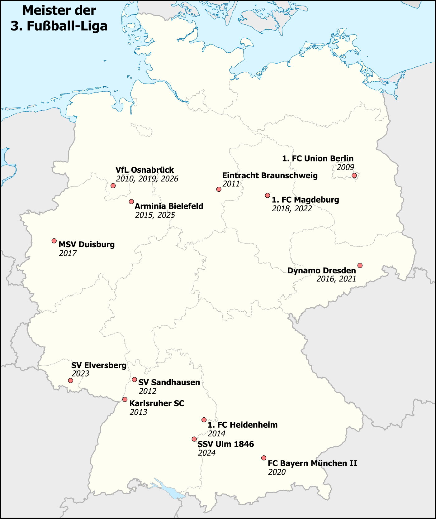 Map of German Third-League Soccer Champions, starting 2009